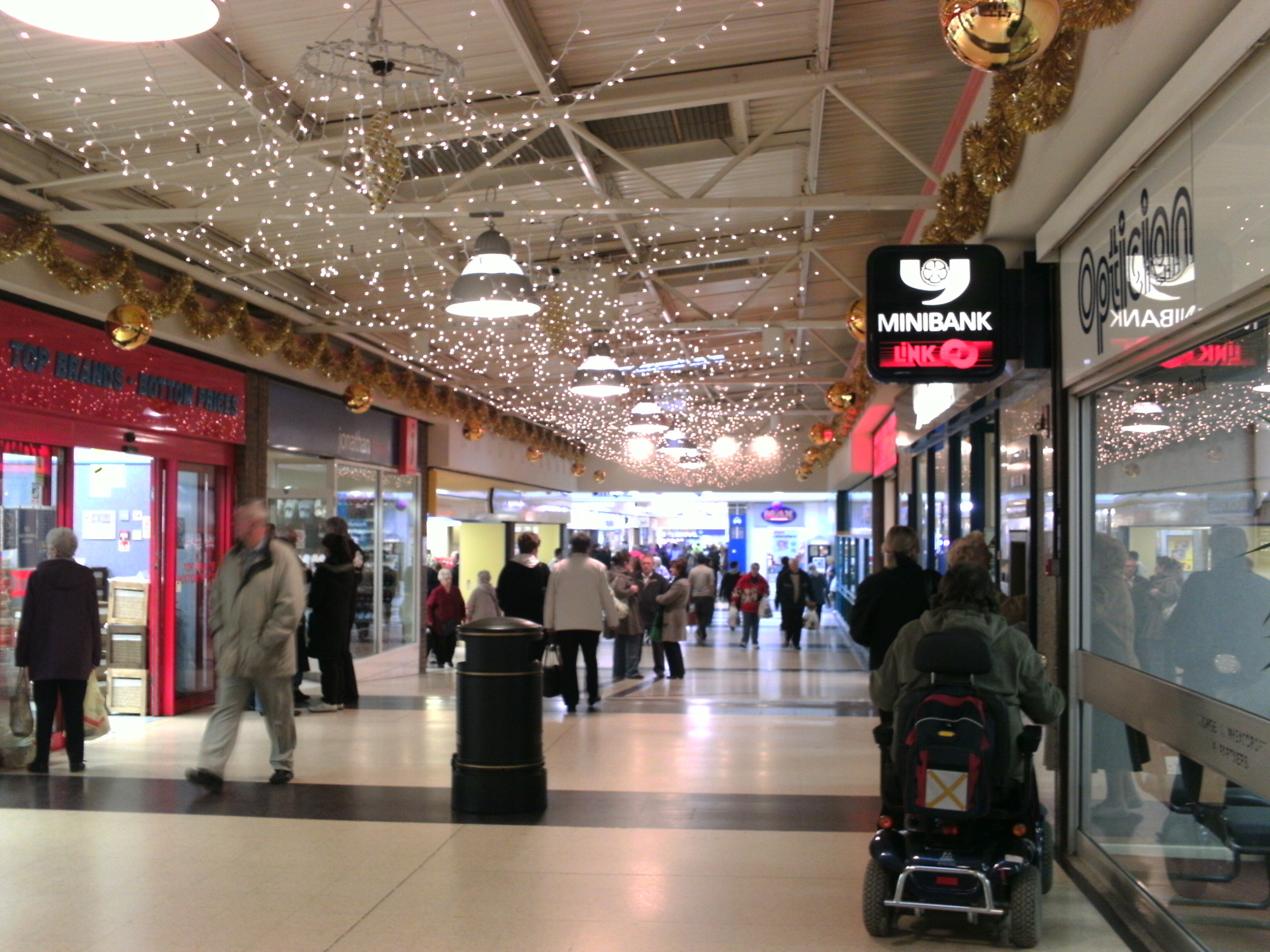 The Interior of the North Point shopping centre, Bransholme, Hull.